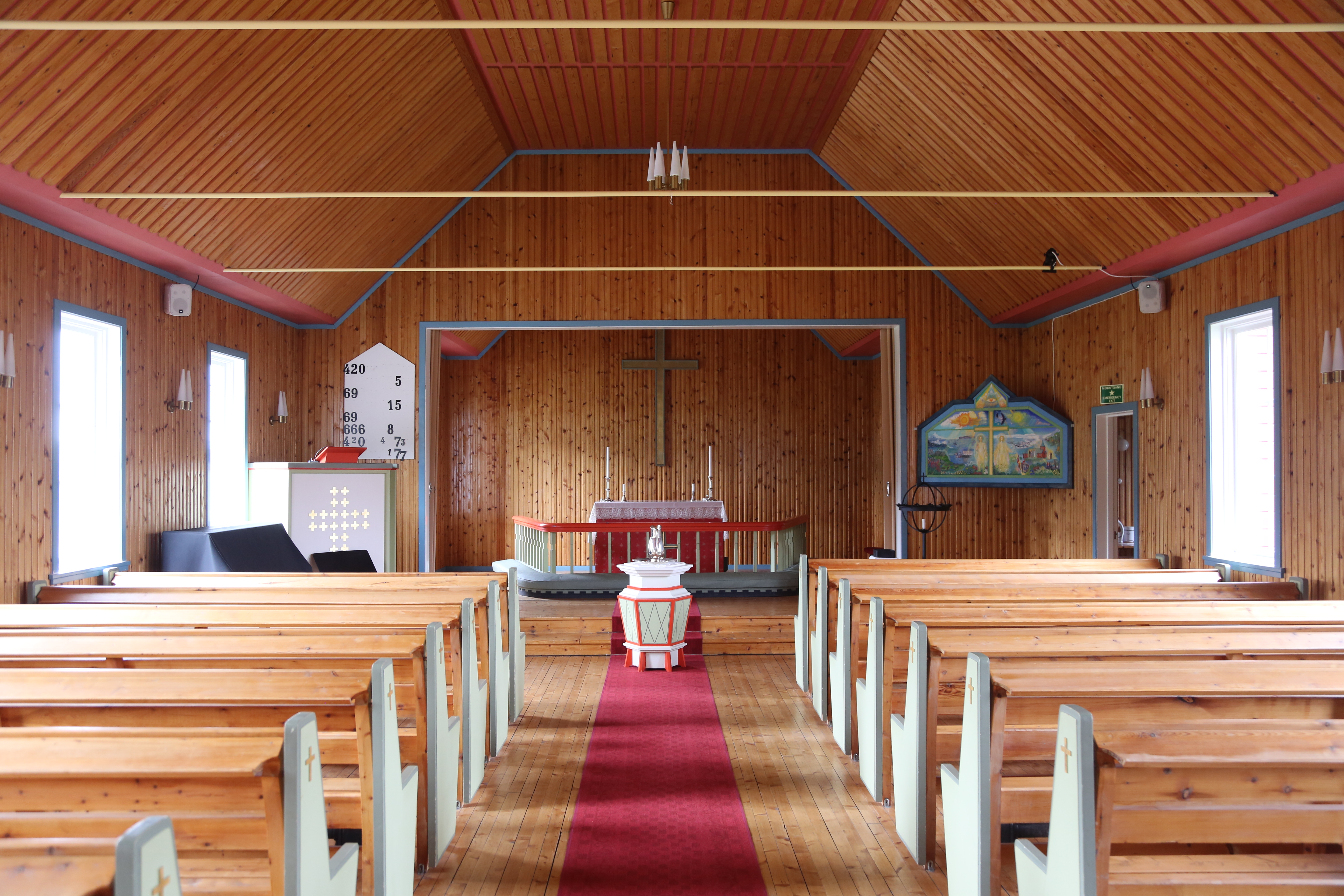 Breivikbotn kapell in the village Breivikbotn, Hasvik kommune, Finnmark